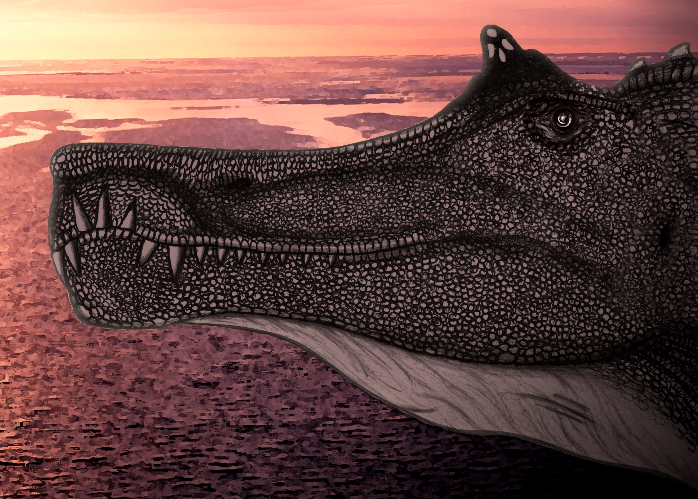 Life restoration of the head of Irritator challengeri at dusk in front of the shoreline, based on skull diagrams from Sales and Schultz (2017).[1] (Background modified from File:Sunset over the Ross Sea - NOAA.jpg)